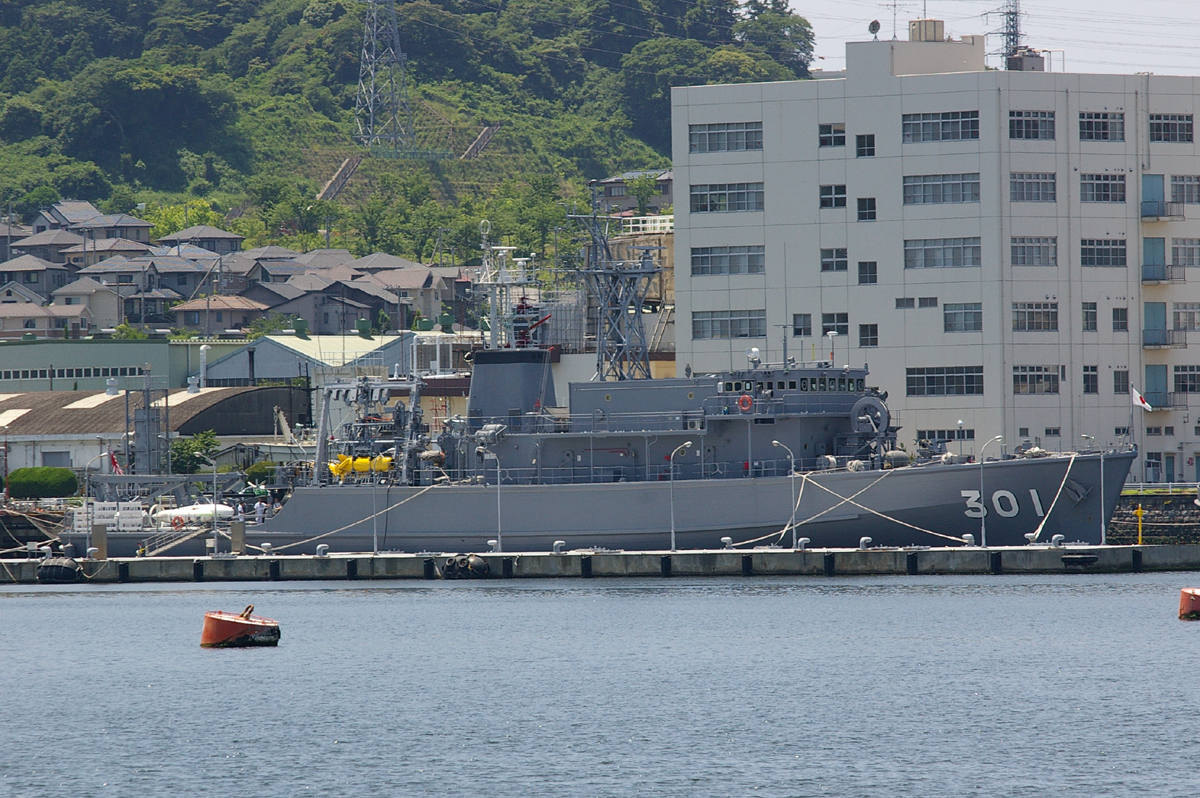 JMSDF_MSO_301_Yaeyama (Taken at Yokosuka,Japan)